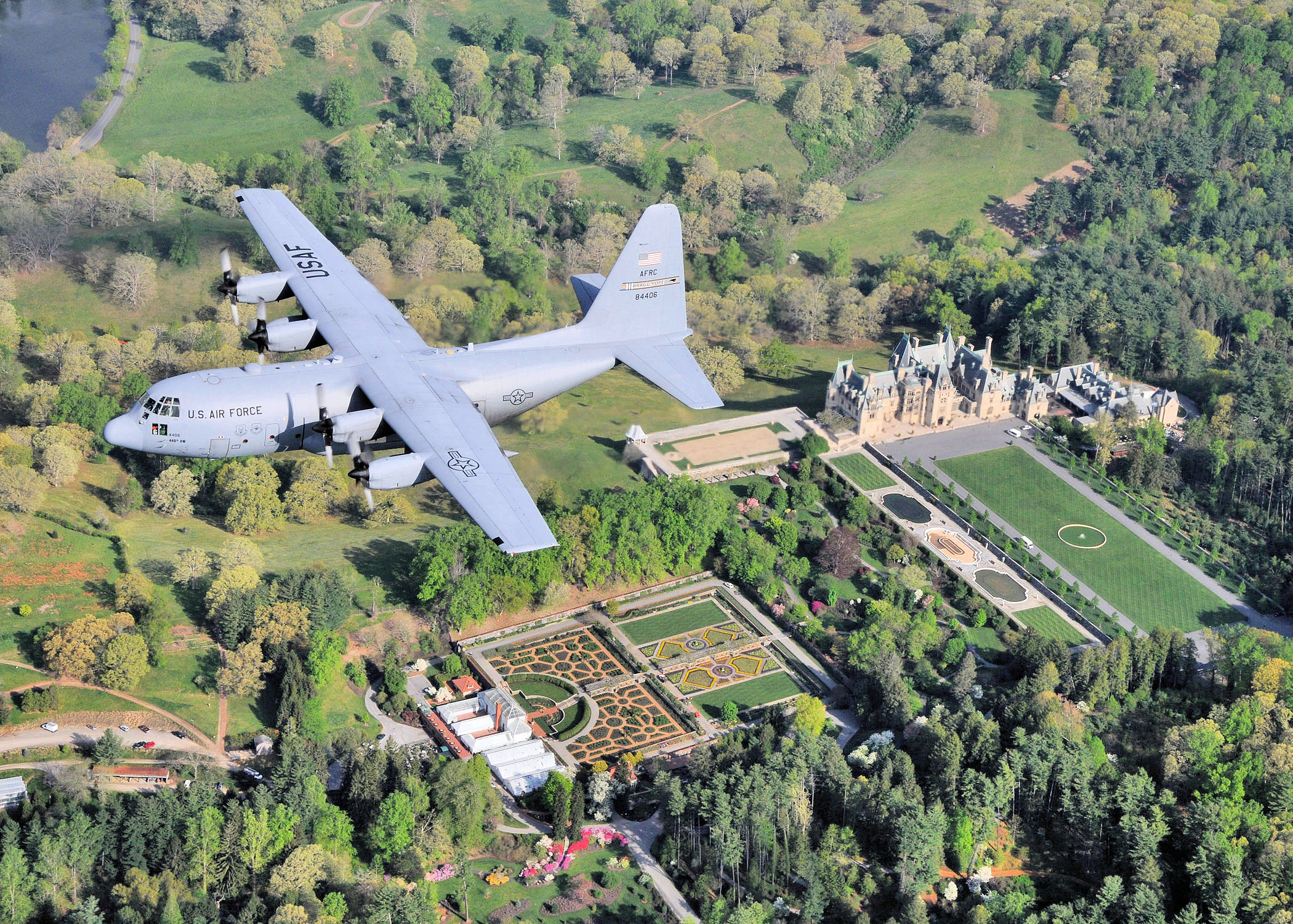 C-130 H2 flying over the Biltmore Mansion A C-130 H2 aircraft from the 440th Airlift Wing stationed on Pope AFB, North Carolina, flyes over the Biltmoore Mansion, which is the largest privately owned home in the United States.